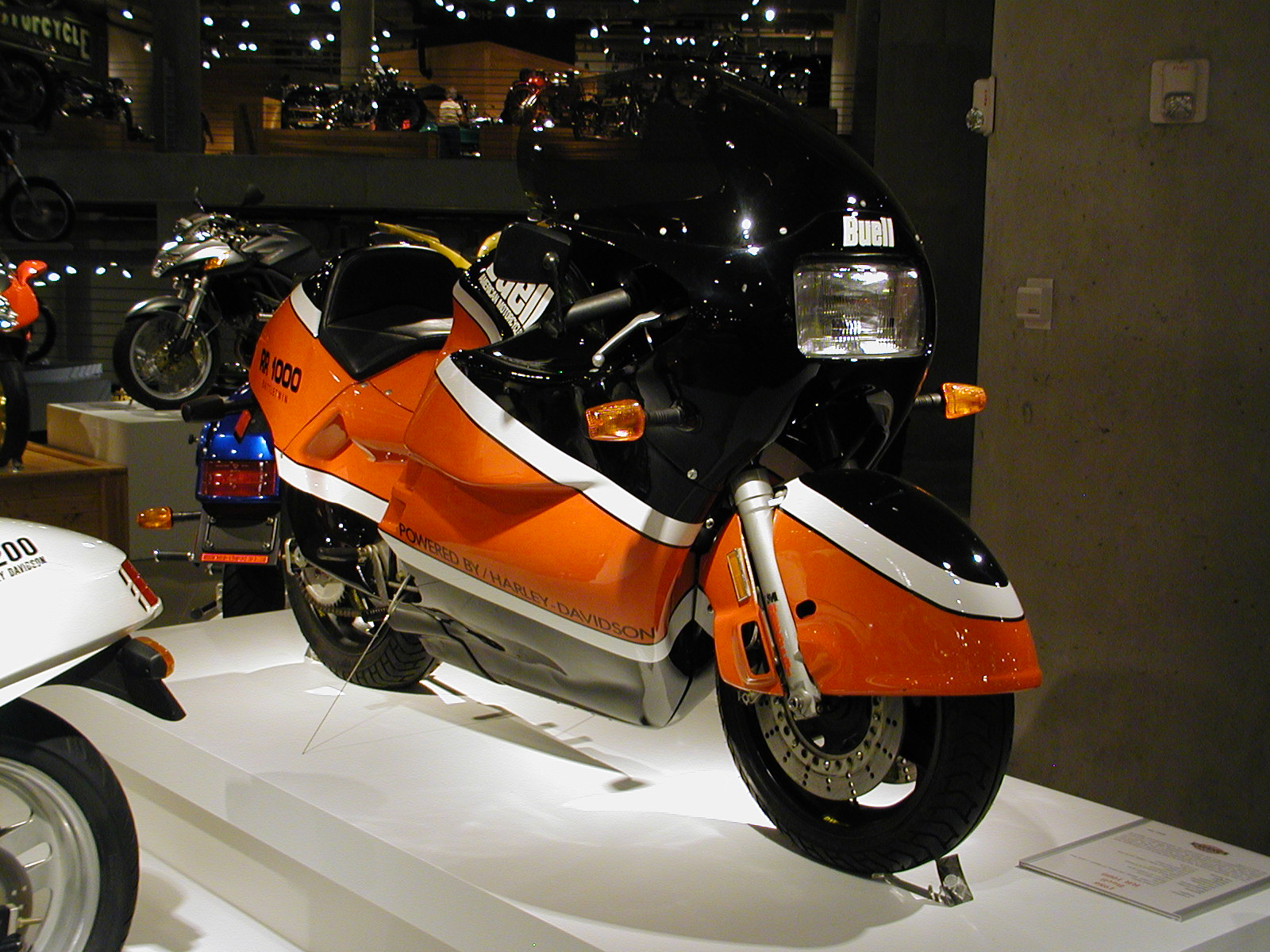 Barber Motorcycle Museum - Oct 22 2006 (108) Buell RR1000 Battletwin